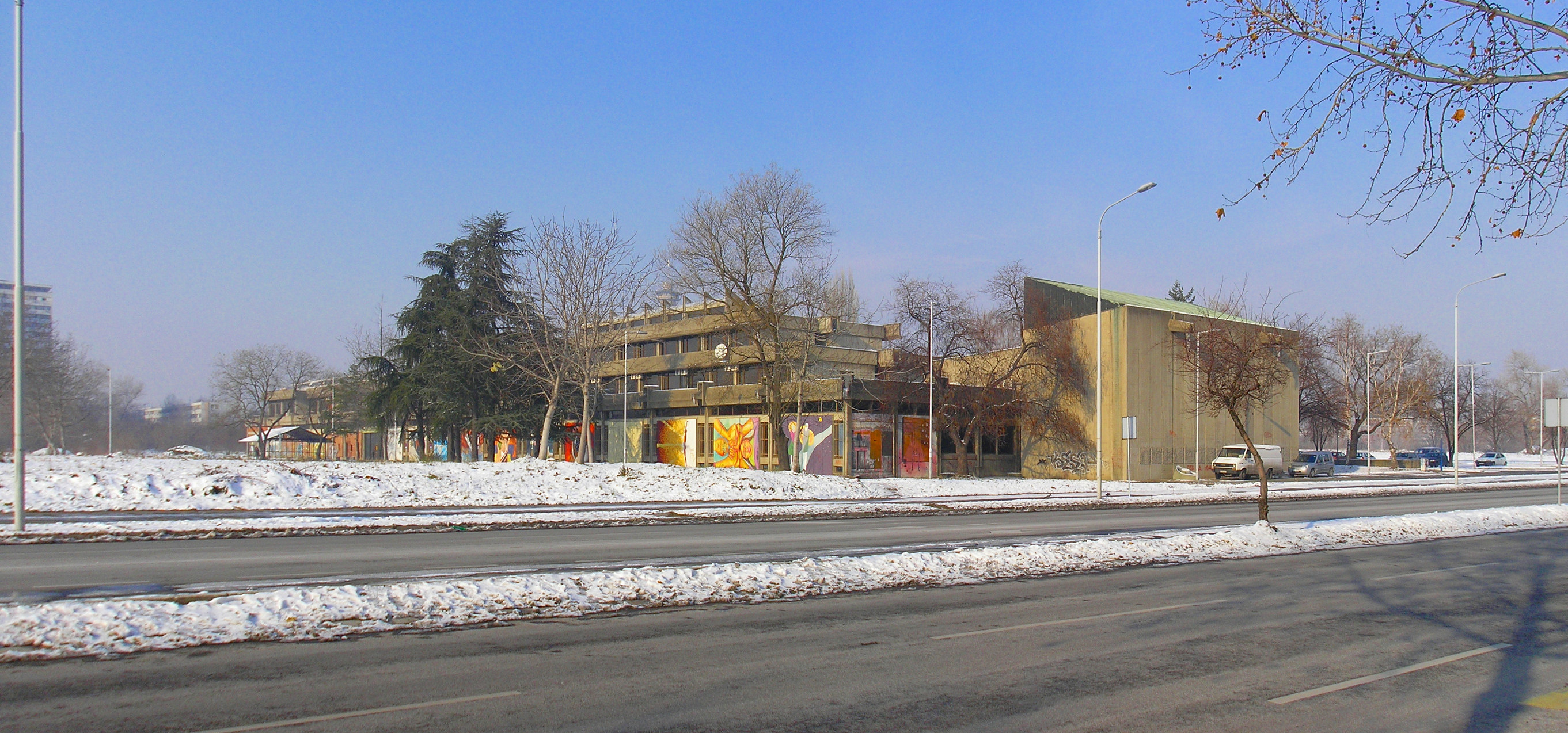 Faculty of Dramatic Arts in Belgrade. View from SSE. Two photos brought together with hugin.